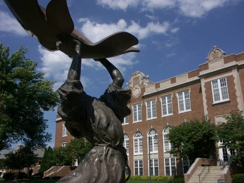 Paul Granlund sculpture, "Dancing St. Francis" At Wartburg College in Waverly, IA.